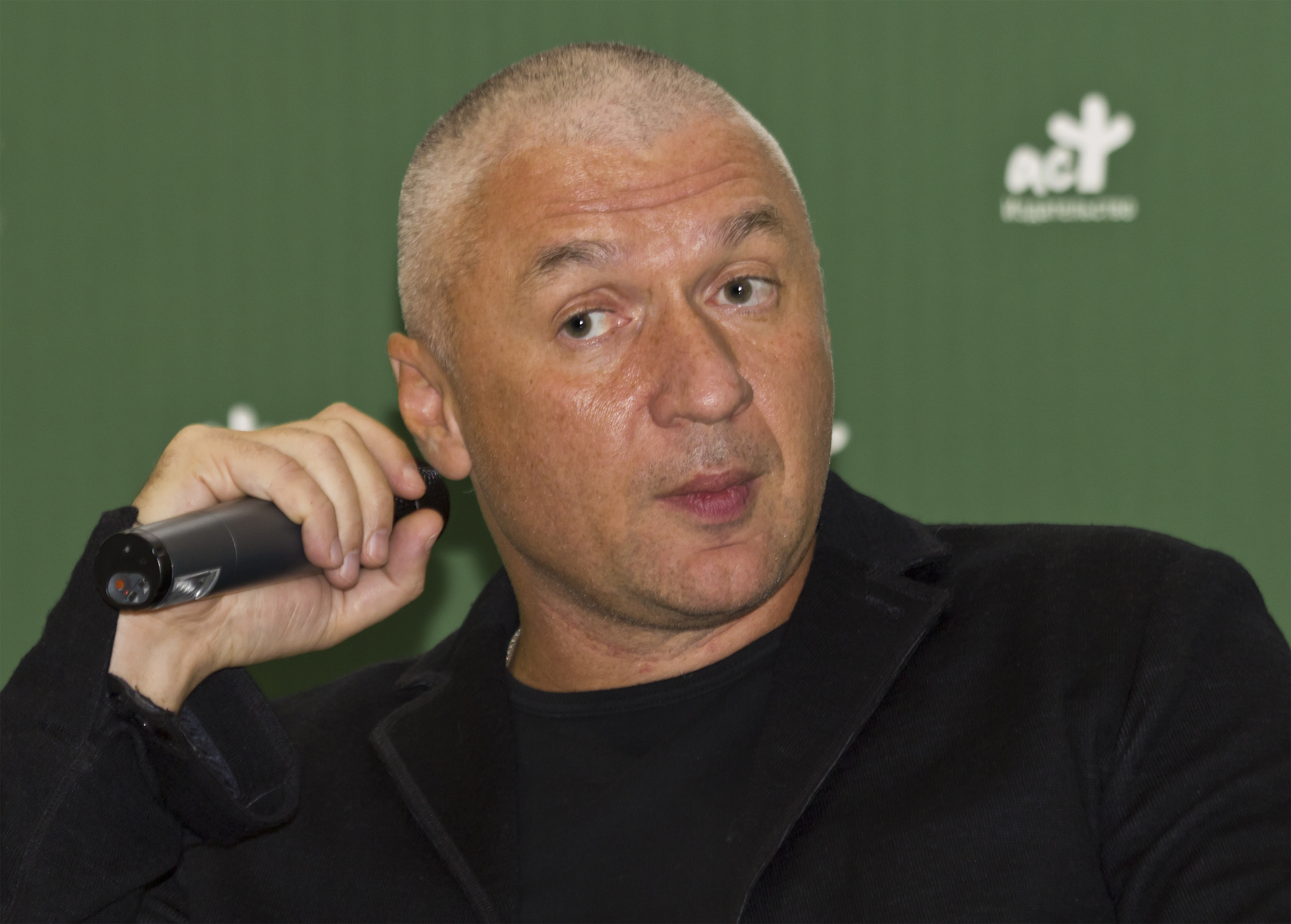 Dmitri Lipskerov, Russian writer and playwright. Taken at Moscow International Book Fair 2013.